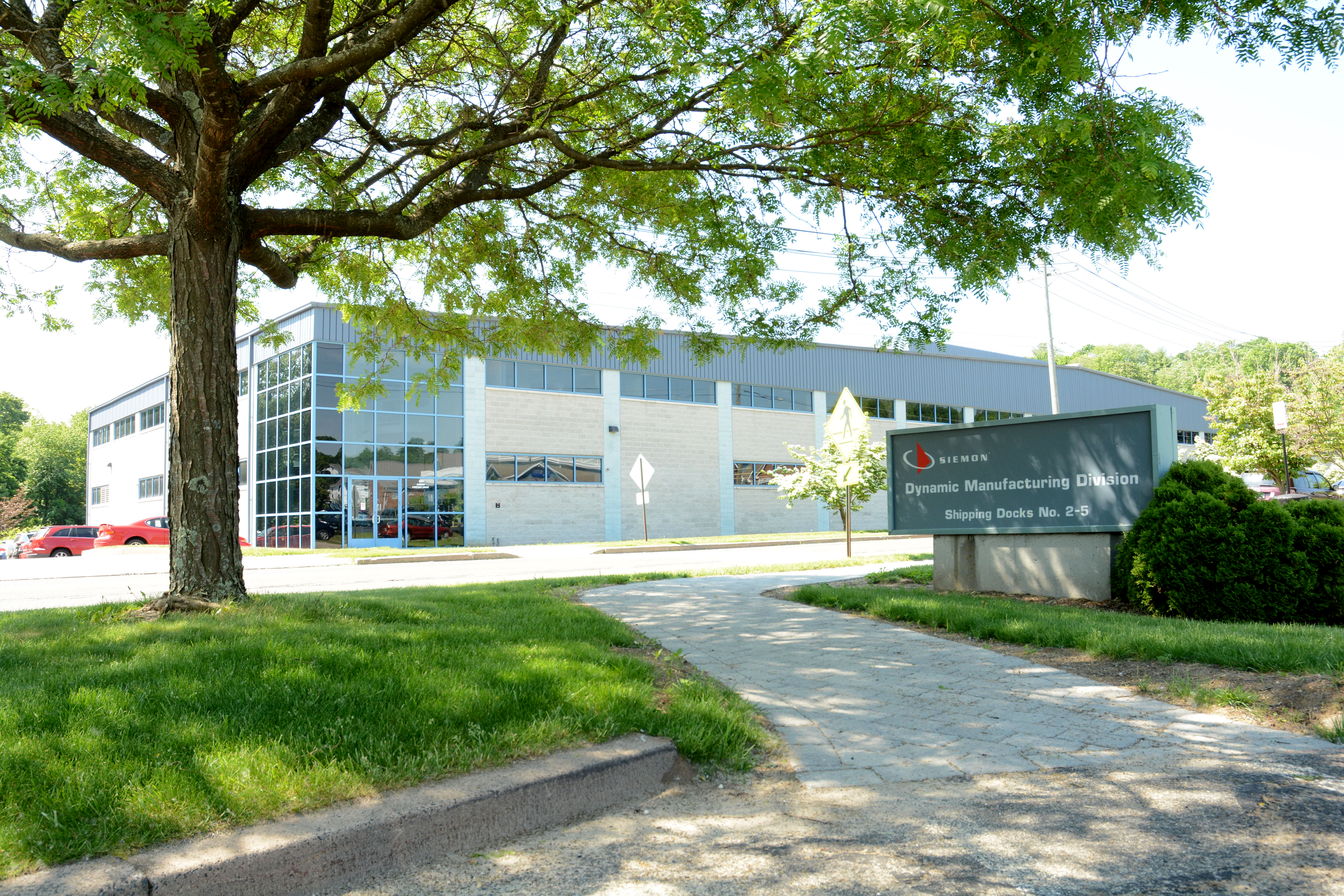 Siemon HQ